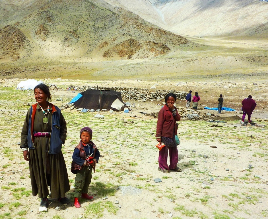 Itookthis photo onmy trip to Ladakh in 2010